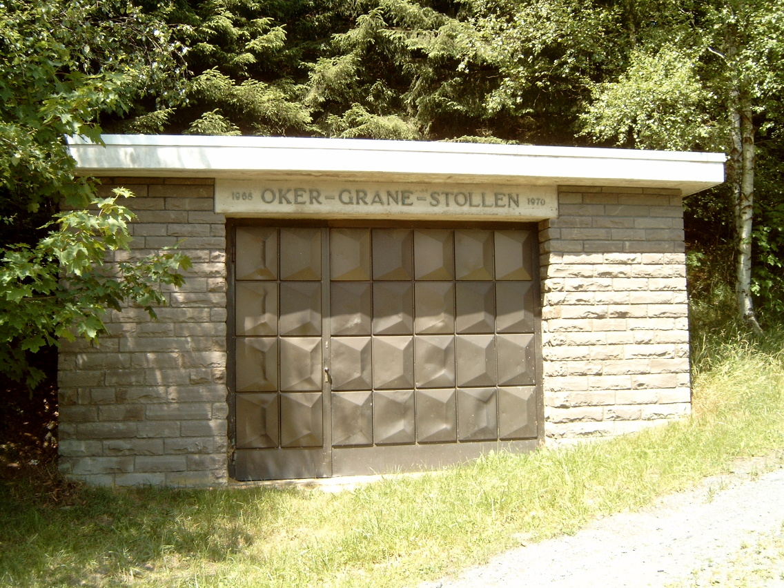 "Oker-Grane-Stollen", entrance in "Romkerhalle"